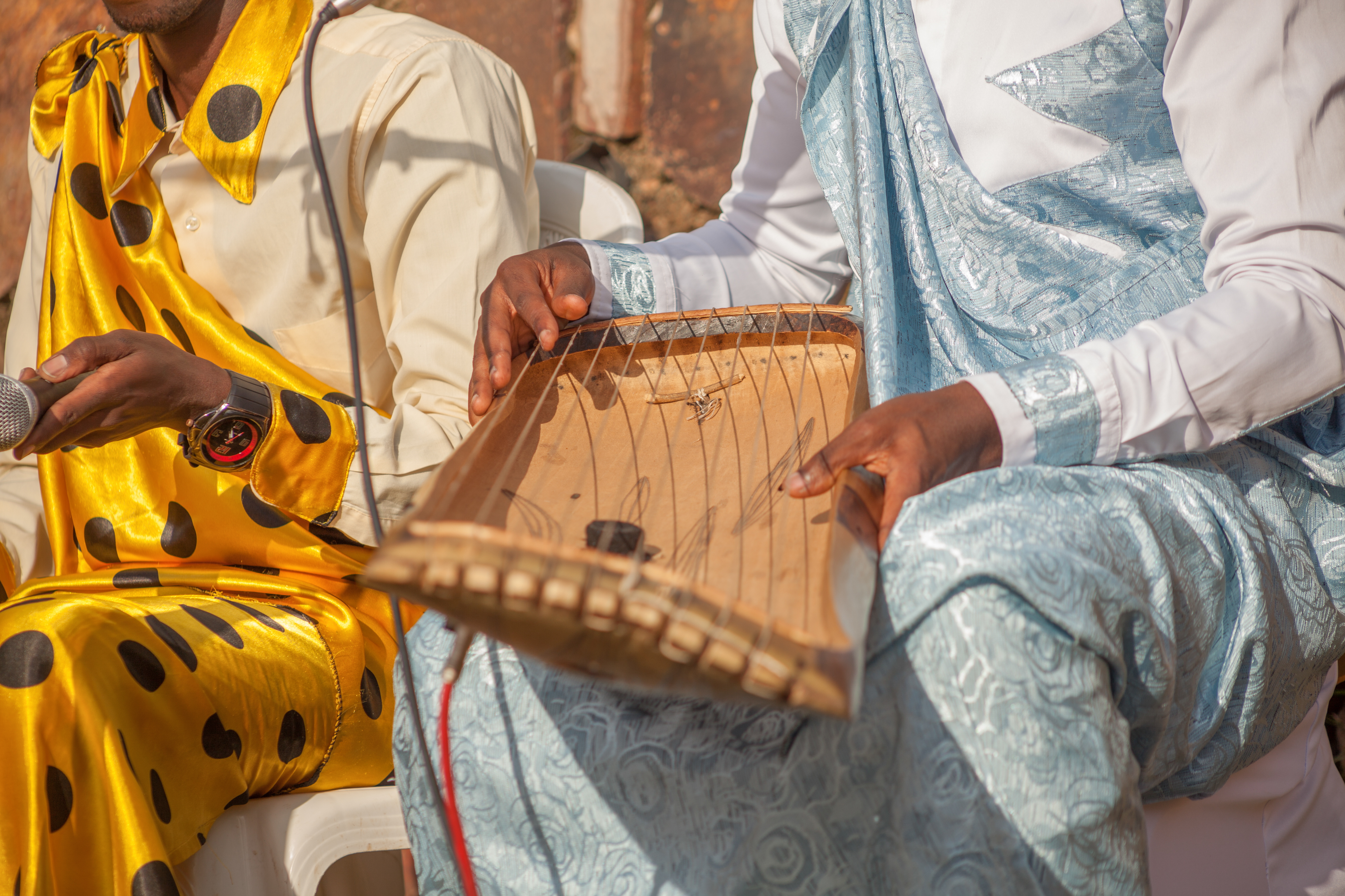 Inanga,traditional Rwandan instrument during the introduction wedding in Kigali, Rwanda This is an image from Rwanda